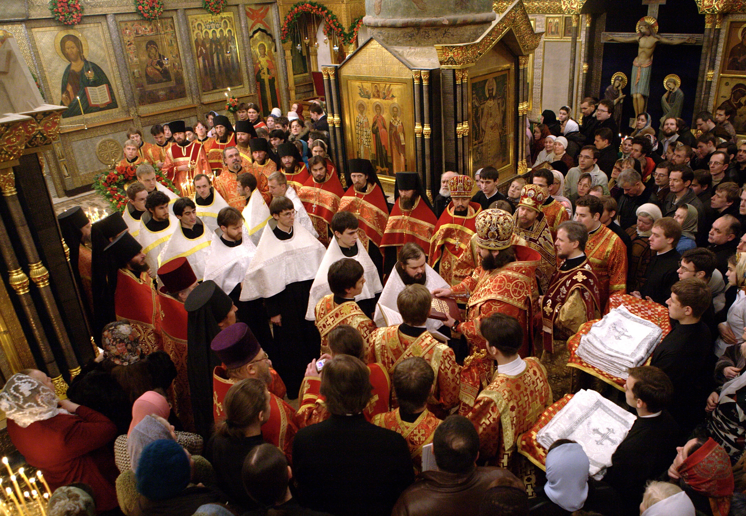 Setting aside (ordination) as readers of seminary students in Russia